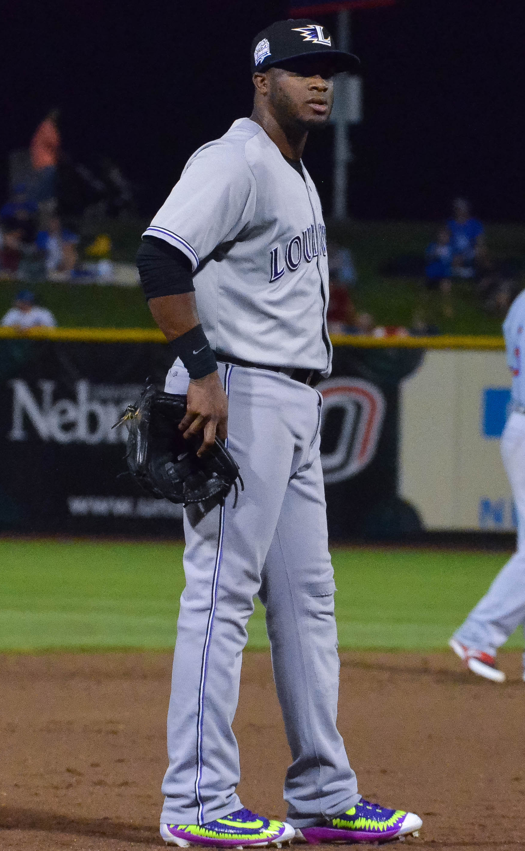 Irving Falú